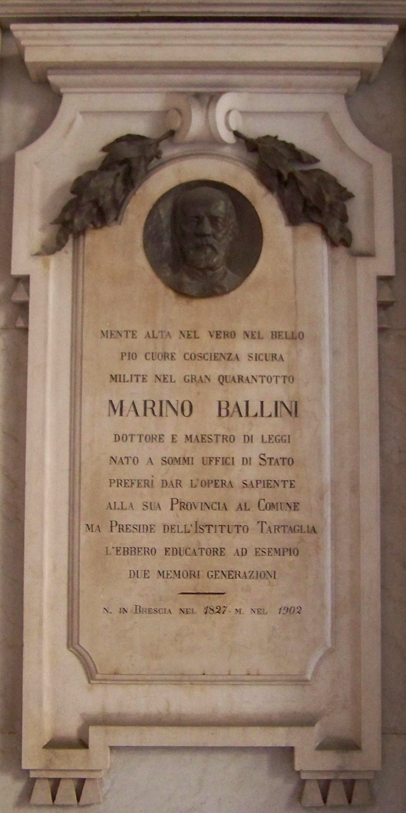 Plaque dedicated to Marino Ballini, teacher and politician of Brescia.